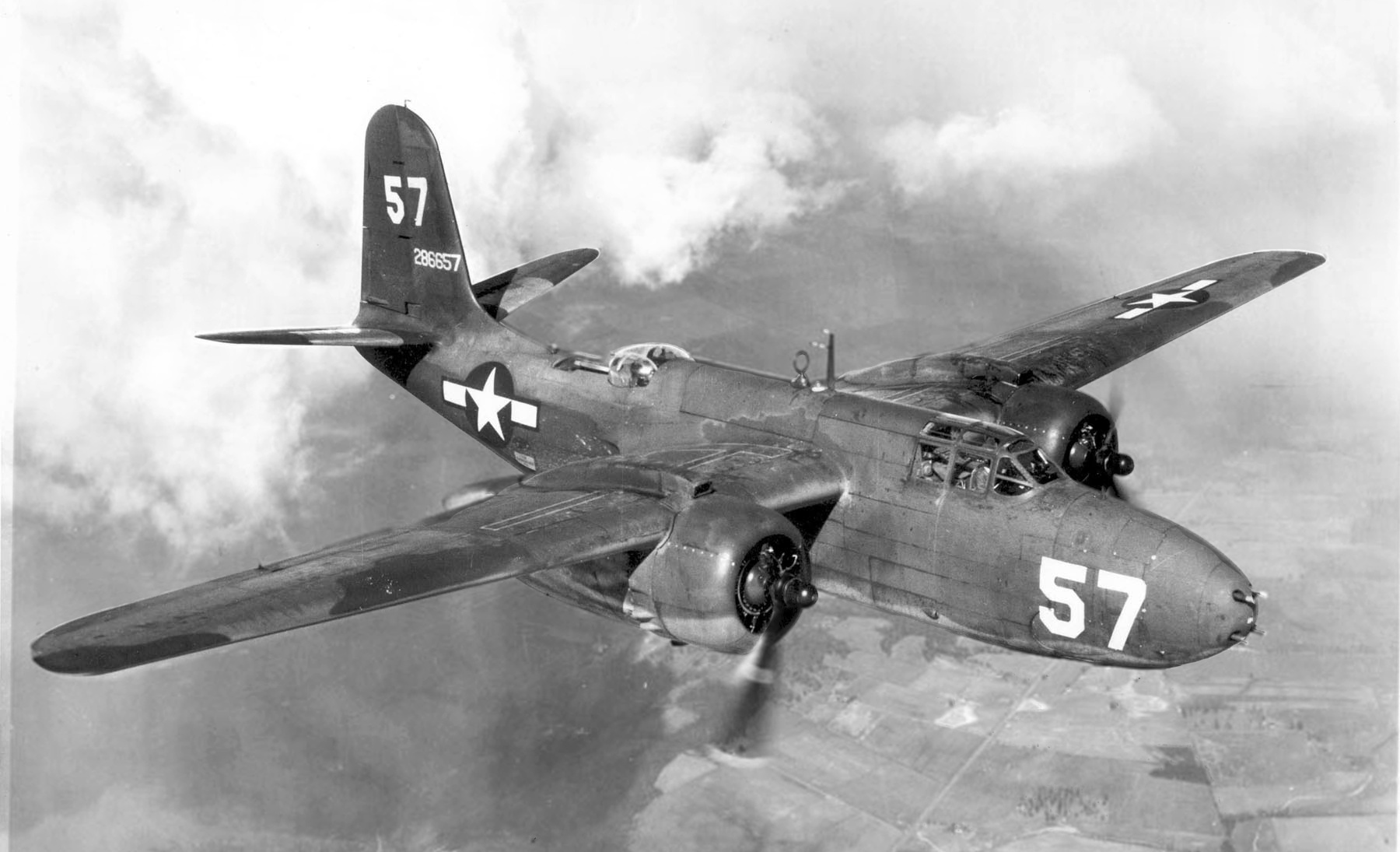 A U.S. Army Air Force Douglas A-20G-20-DO "No. 57" (S/N 42-86657) in flight.